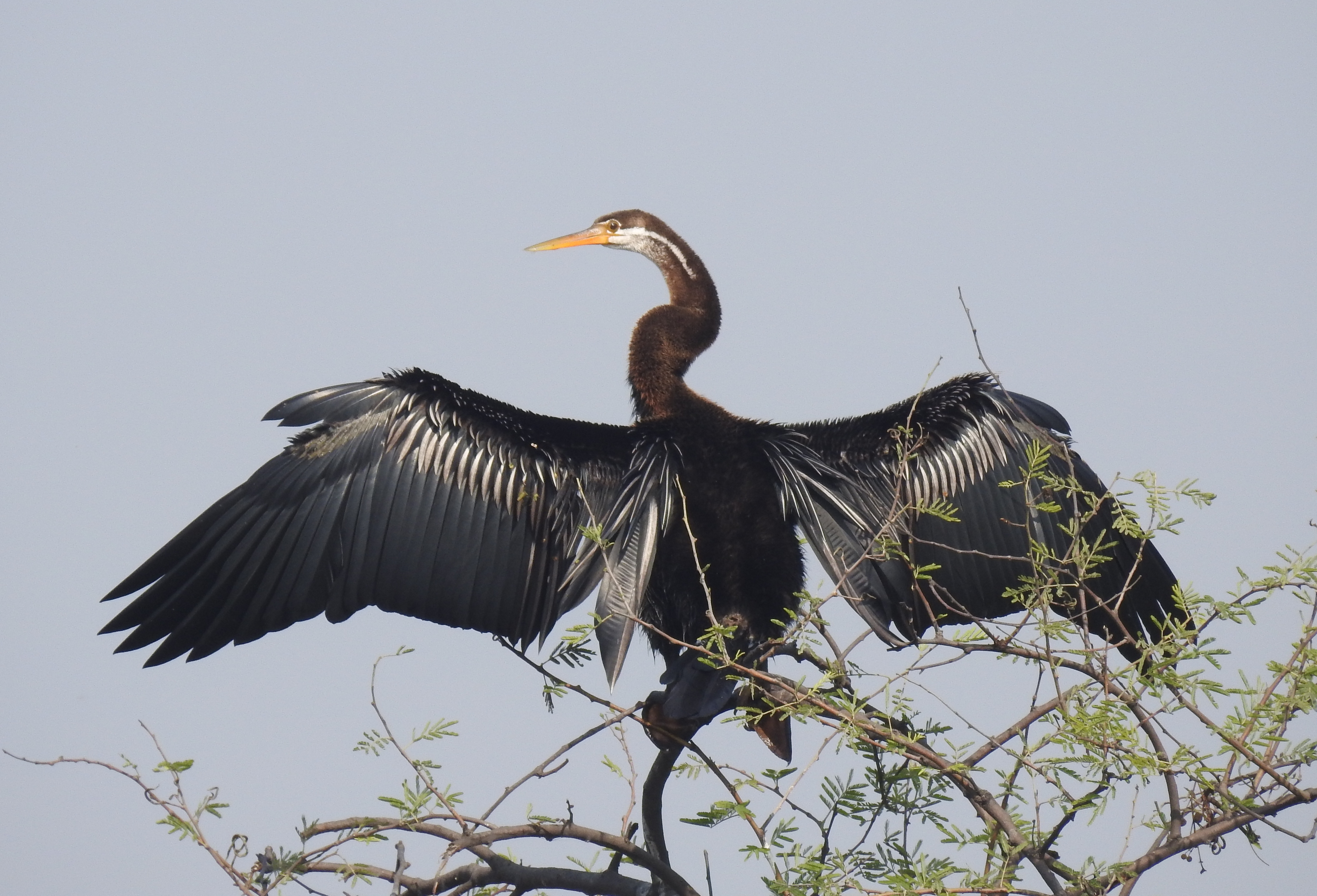 Oriental Darter Anhinga melanogaster by Dr. Raju Kasambe. Photographed at Keoladeo National Park, Bharatpur, Rajasthan, India.